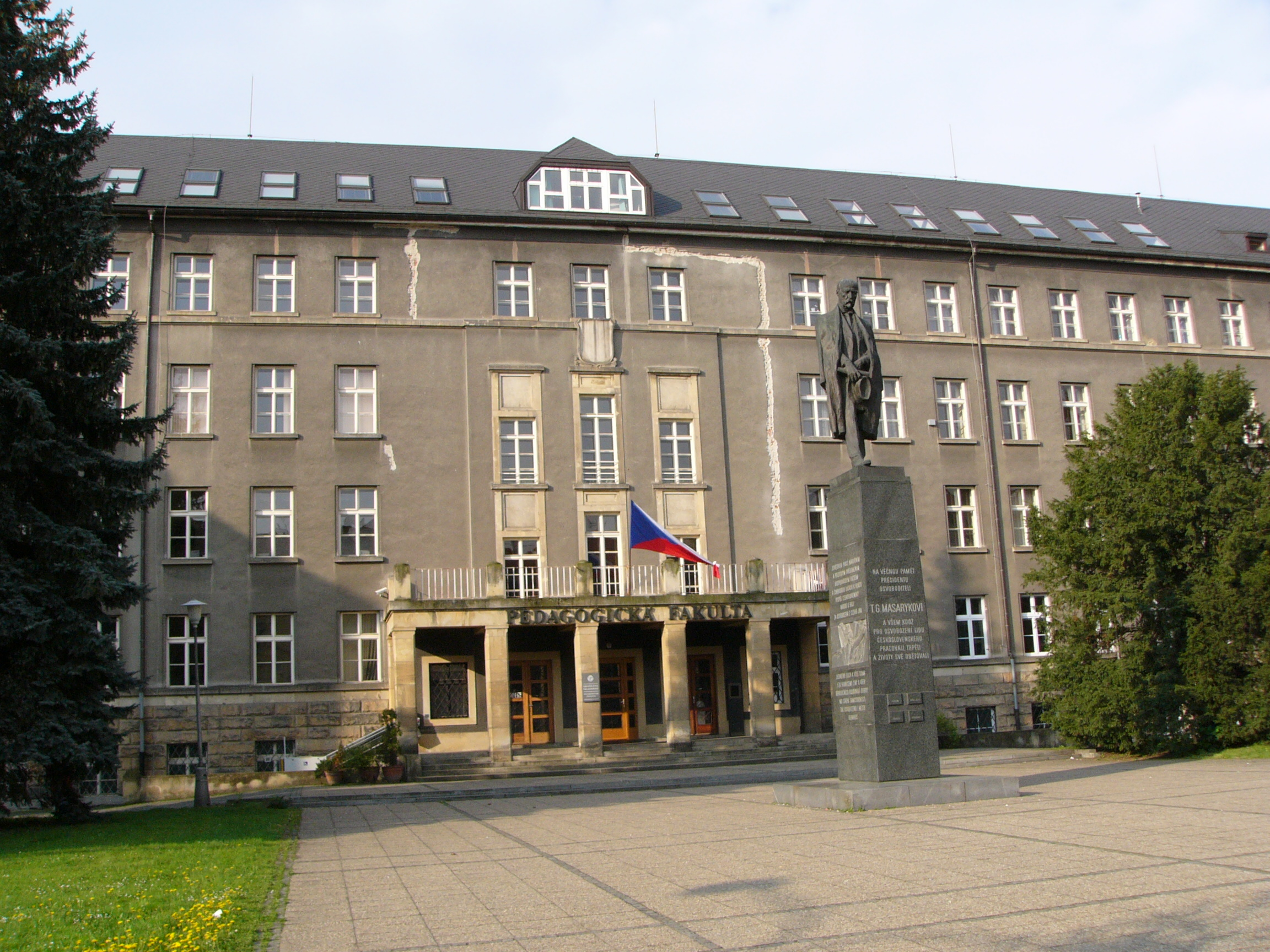 Faculty of Education of Palacký University in Olomouc (Czech Republic) with a monument of Tomáš Garrigue Masaryk. Architect: Klaudius Madlmayr.